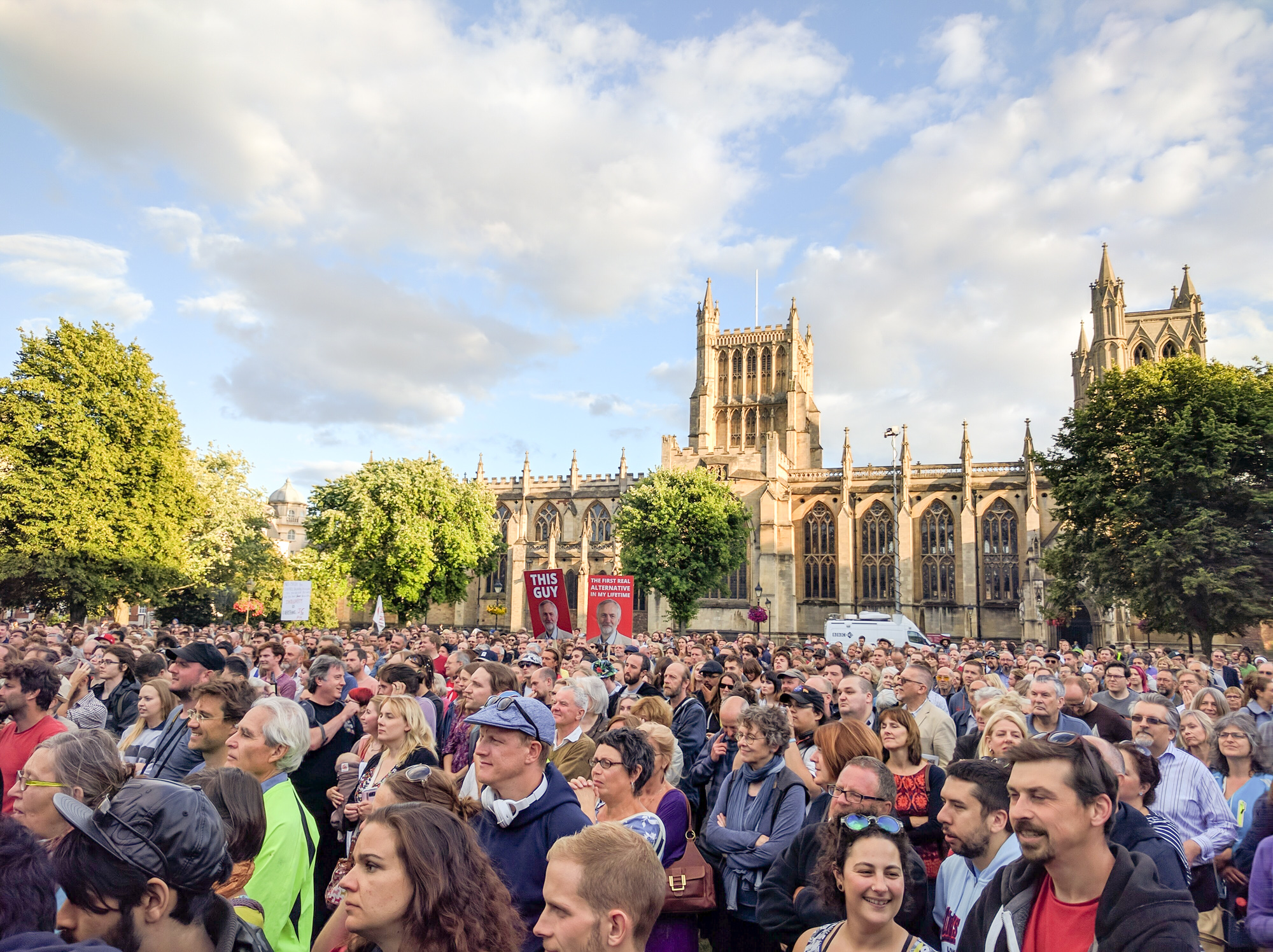 Jeremy Corbyn leadership rally 2016